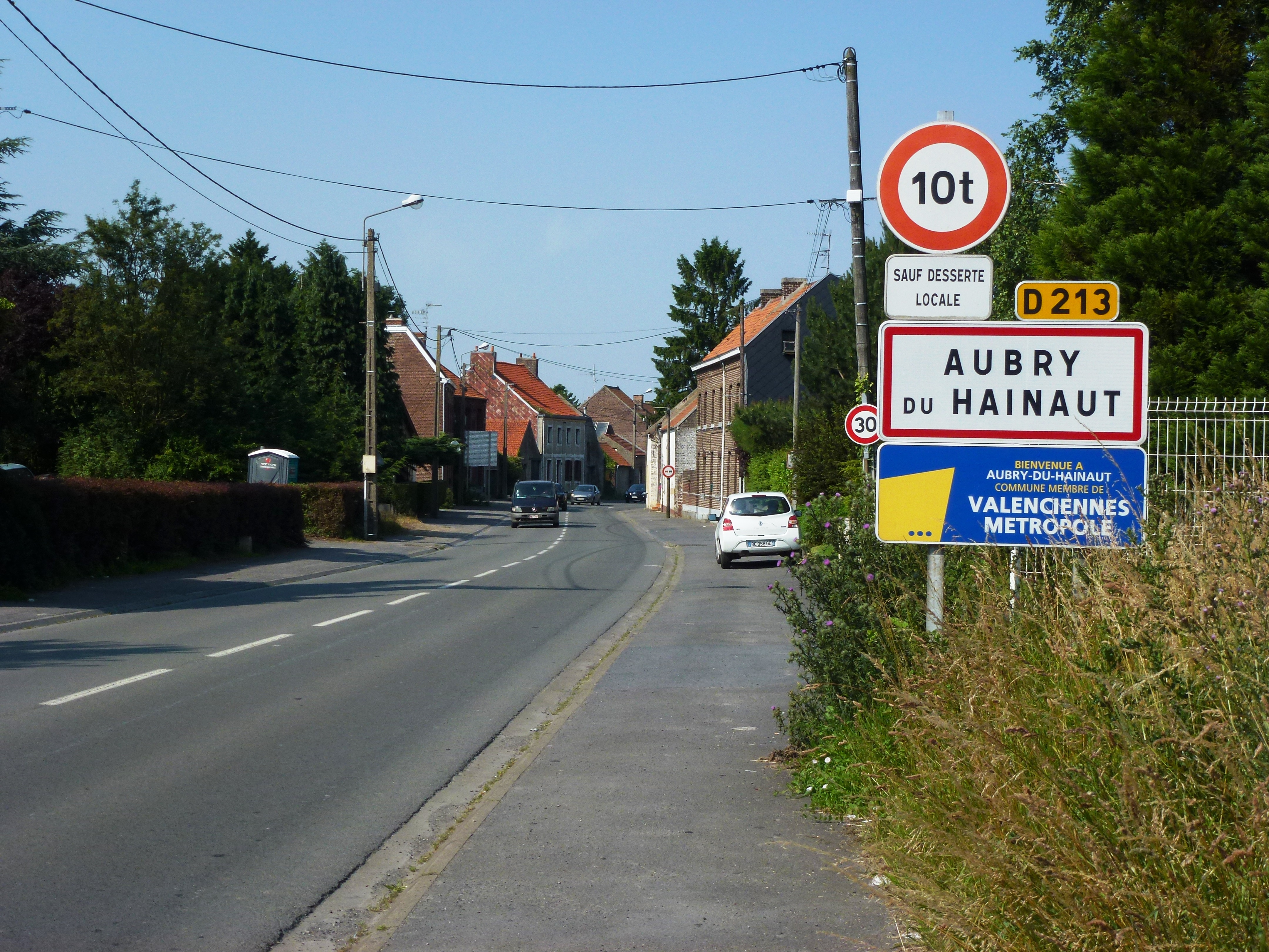 Aubry-du-Hainaut (Nord, Fr) city limit sign